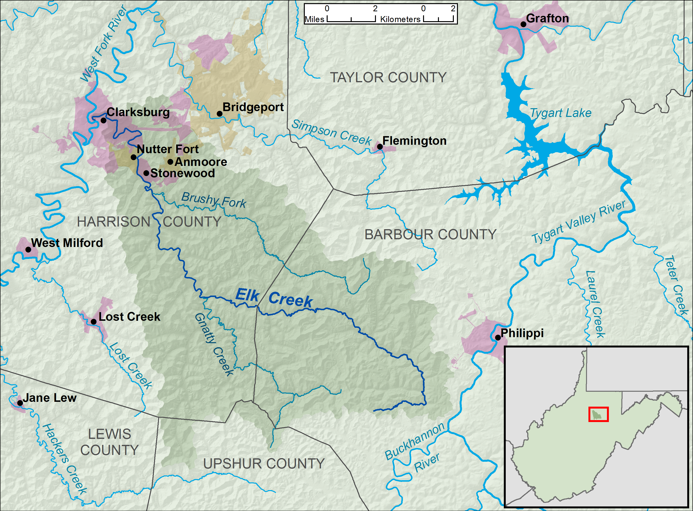 A map of Elk Creek and its watershed (USGS HUC-12 codes 050200020201, 050200020202, 050200020203 and 050200020204), in Harrison, Barbour, and Upshur counties, West Virginia.